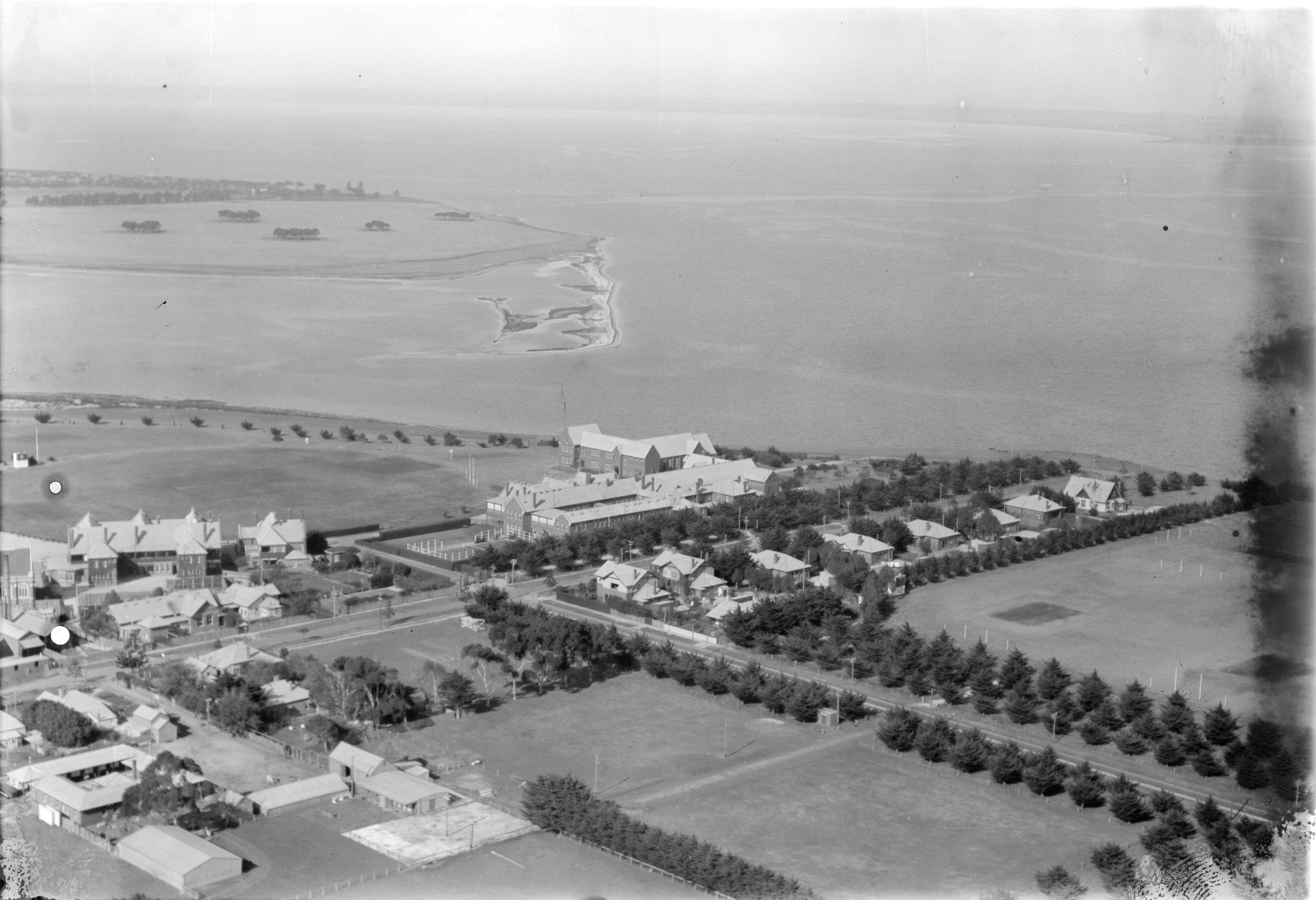 Geelong Grammar School, looking across to entrance of Limeburners Bay (1939).